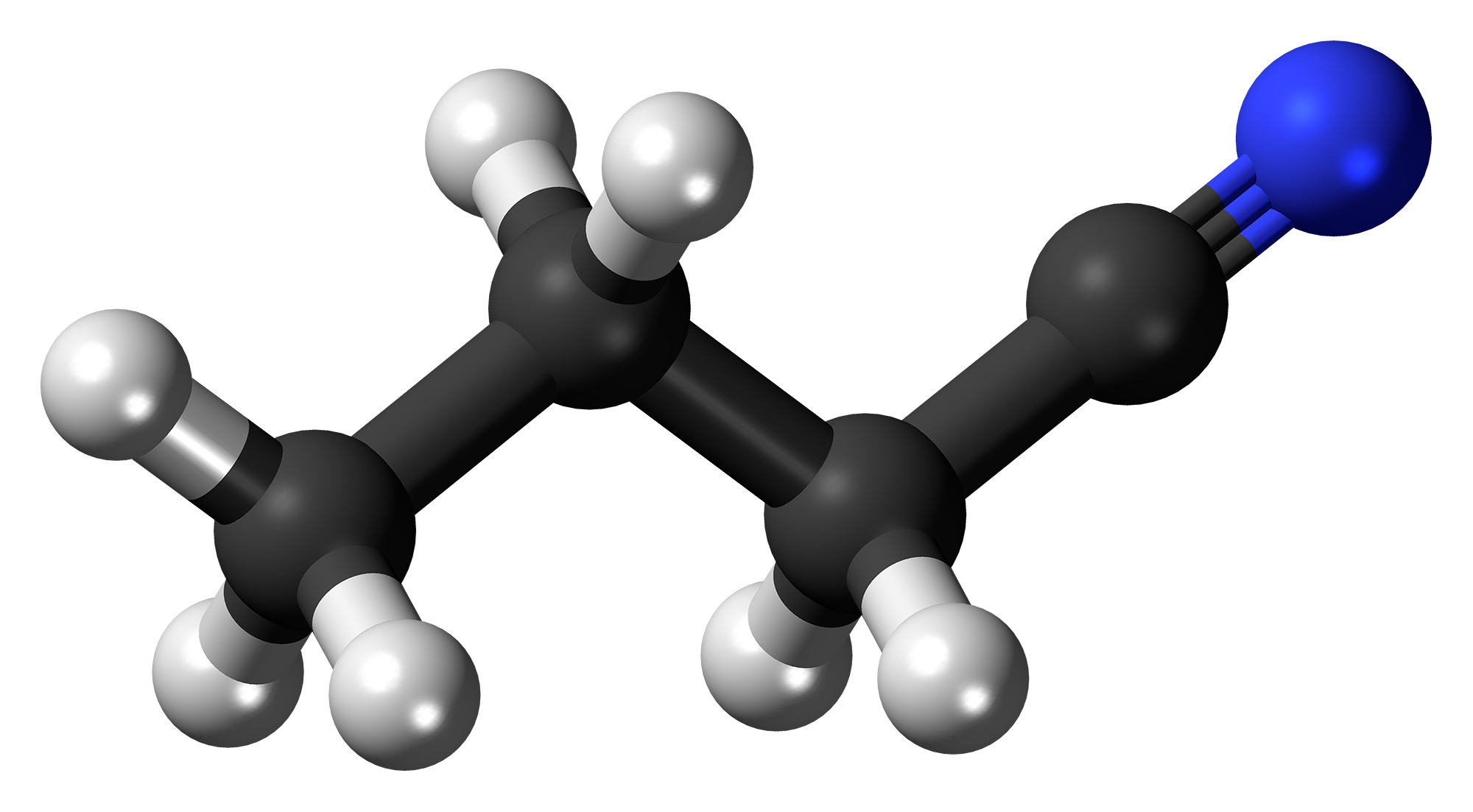 Ball-and-stick model of the butyronitrile molecule, also known as butanenitrile, a nitrile. Color code: Carbon, C: black Hydrogen, H: white Nitrogen, N: blue